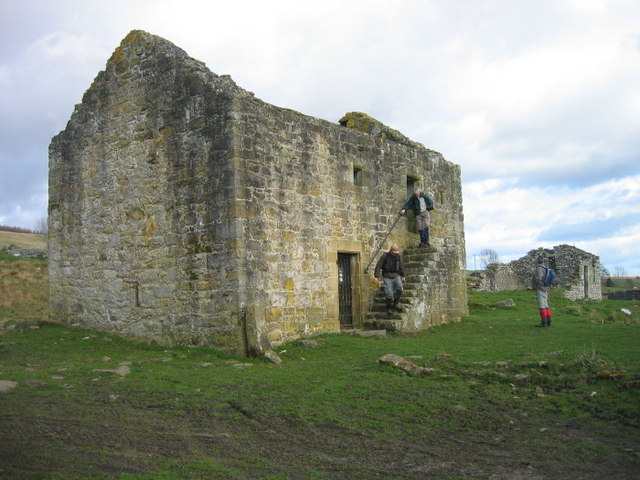 Black Middens Bastle Keys to the Past Web Site: This group of buildings at Black Middens includes a well-preserved 16th century bastle, an 18th century farmhouse, traces of a second bastle and a group of enclosures and fields Only the roof is missing from the first bastle and has thick stone walls. The original 16h century doors were replaced in the 18th century. At the same time a new farmhouse was built south-east of the bastle. Little remains of this later farmhouse, but the bastle beneath it survived due to its use as a cattle shed.